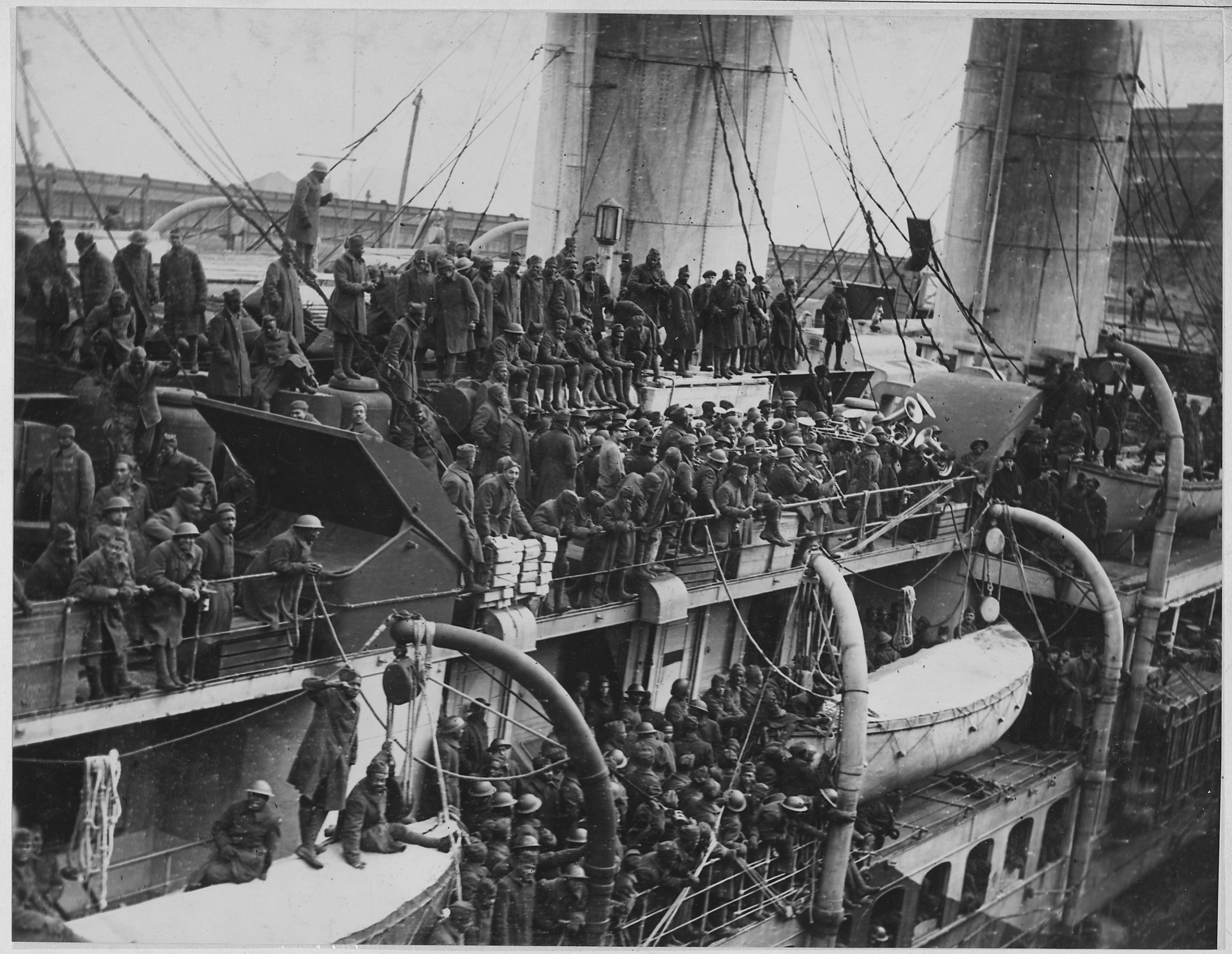 Scope and content: The full caption for this item is as follows: 15th Infantry fighters home with War Crosses. French liner La France arrives with 15th Infantry, Negro fighters who won honors in France.